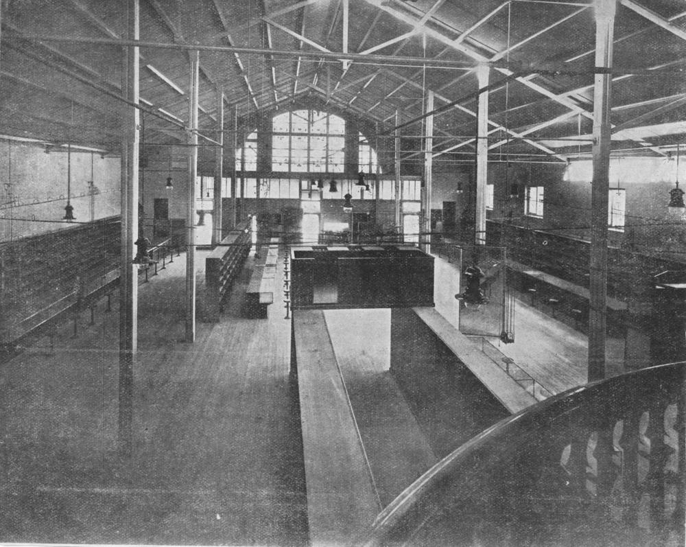 Stan Pollard Building in Gill Street, Charters Towers, 1909. This building was constructed by Hugh Ross for Daking Smith Limited in 1906. (Description supplied with photograph).